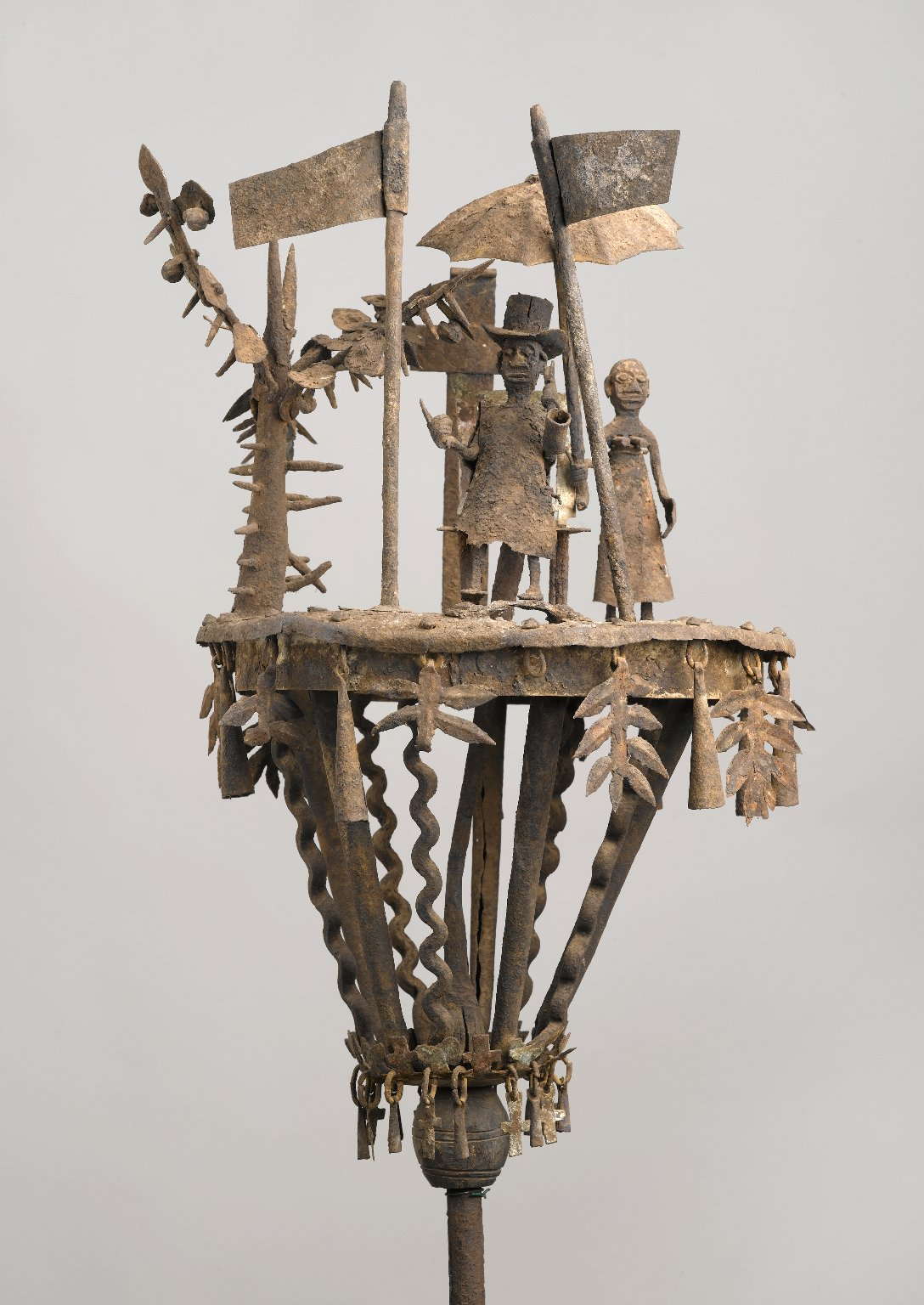 Asen altars serve as monuments to the dead for the Fon. Placed in family shrines, they become the focus of interaction with ancestors. This asen is from Ouidah, a coastal city whose trade with Europeans (initially Portuguese) was flourishing as early as the seventeenth century. Thus, the central figure, which represents the deceased, wears a stovepipe hat, smokes a pipe, sits on a straight-backed chair, and stands beneath an umbrella—all symbols that derive their power from association with powerful European traders. This work has been attributed to Akati Akpene Kendo, a well-known artist in the service of the Fon king Glele (r. 1858–89).